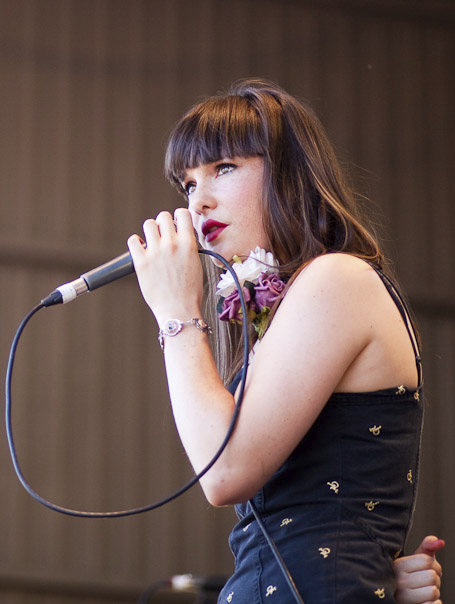 Lisa Mitchell performing at Falls Festival 2009.